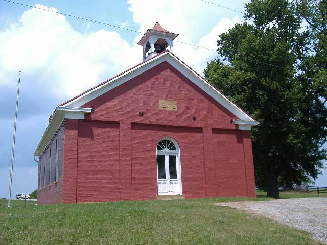 Pisgah Christian Church located on Pisgah Ridge Road.